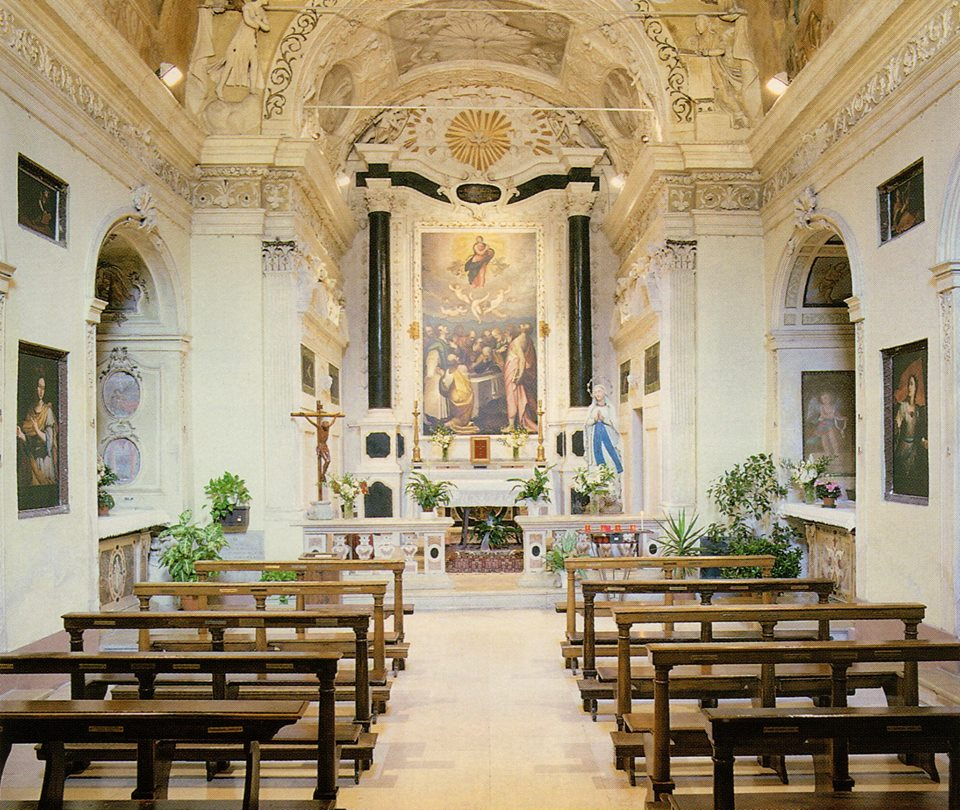 Asola - Chiesa Santa Maria del Lago (interno)